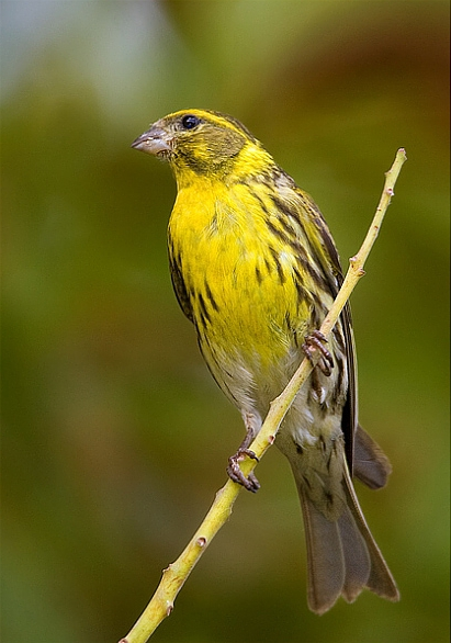 Serinus serinus, Olomouc, CZ